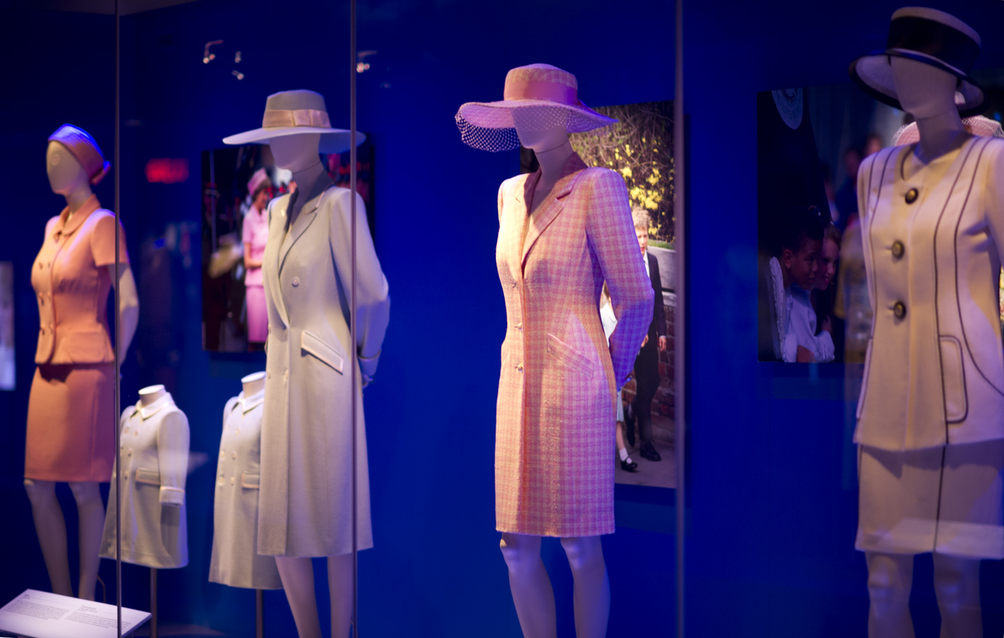 On display in "Diana: A Celebration" were garments worn by Diana, Princess of Wales.